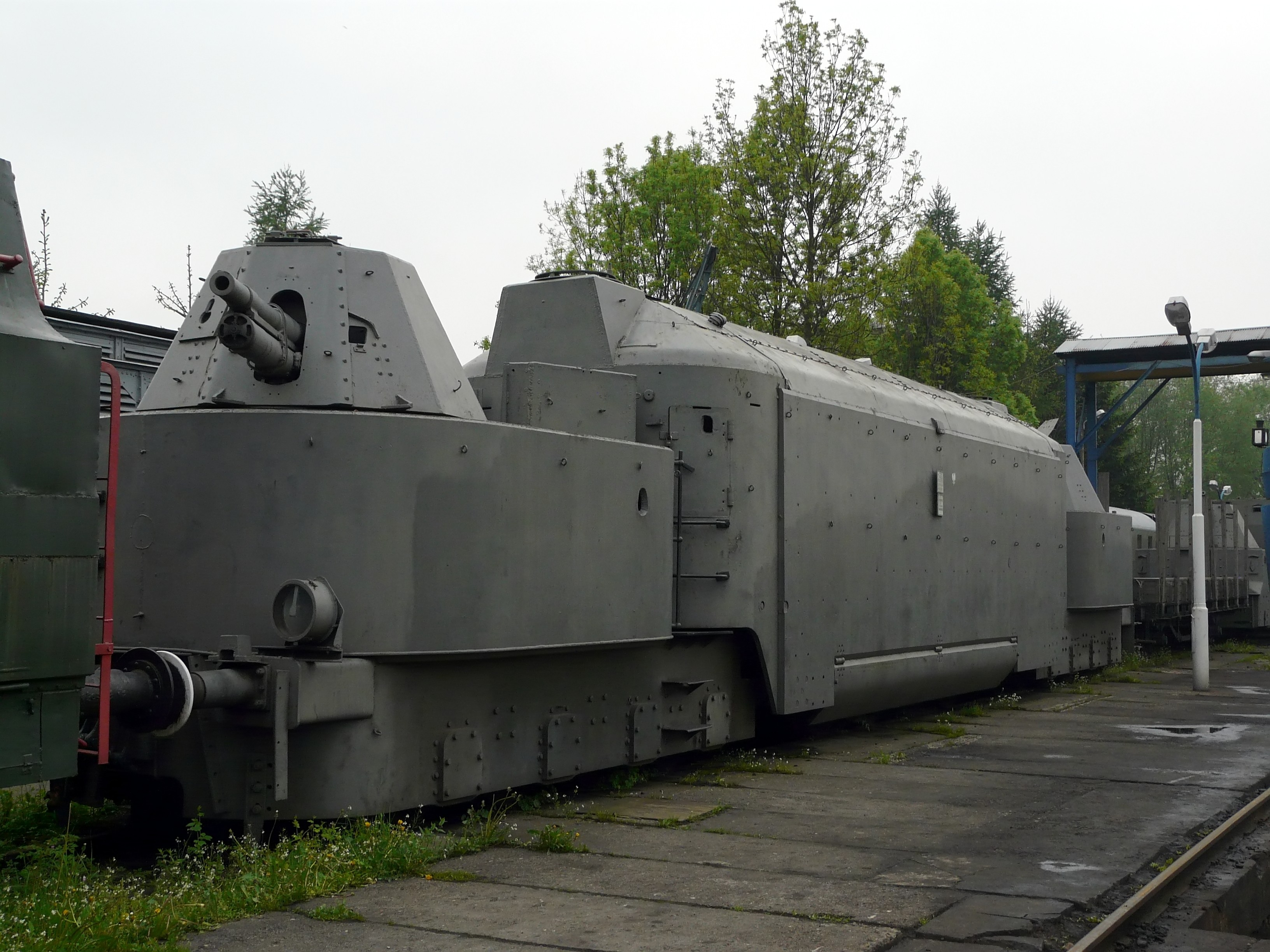 The German armoured motor railcar Panzertriebwagen 16 (PT 16) at Chabówka Rolling-Stock Heritage Park, Poland (temporary exhibition - owned by Museum of Railways in Warsaw